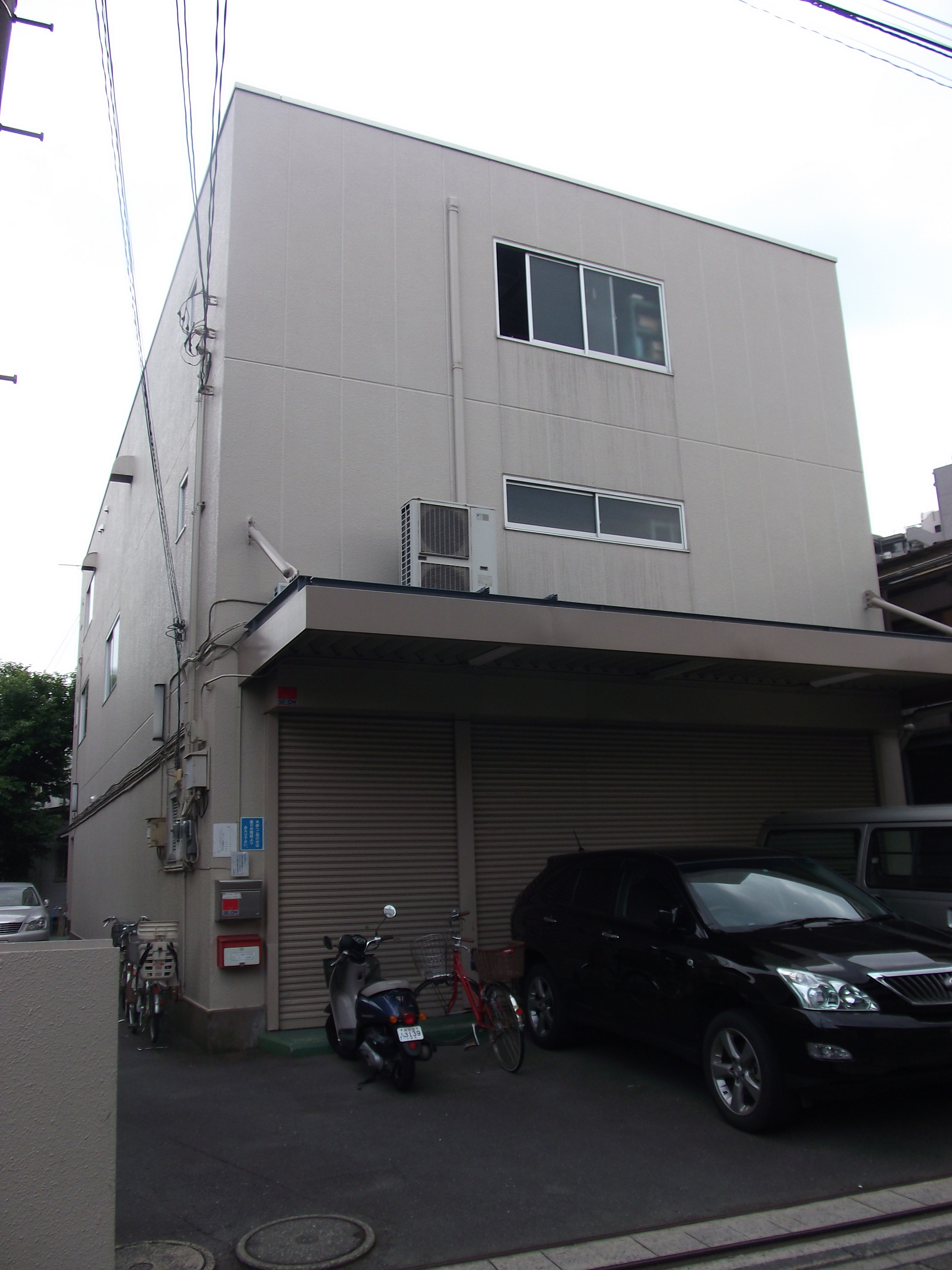 The headquarter of Haifukiya Pharmacy.